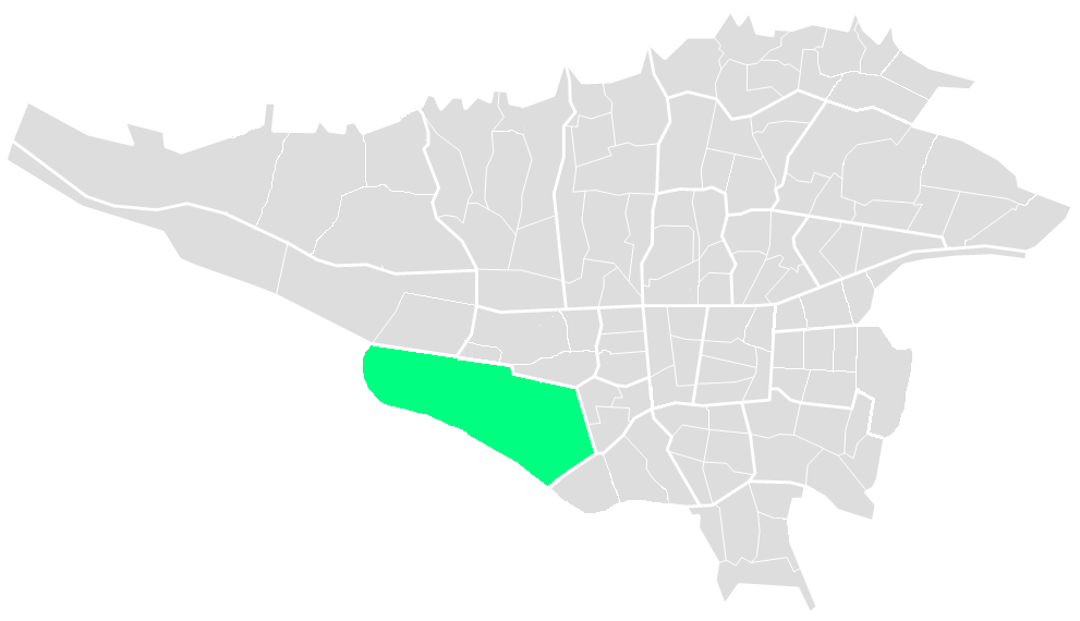 Region 18 of Tehran